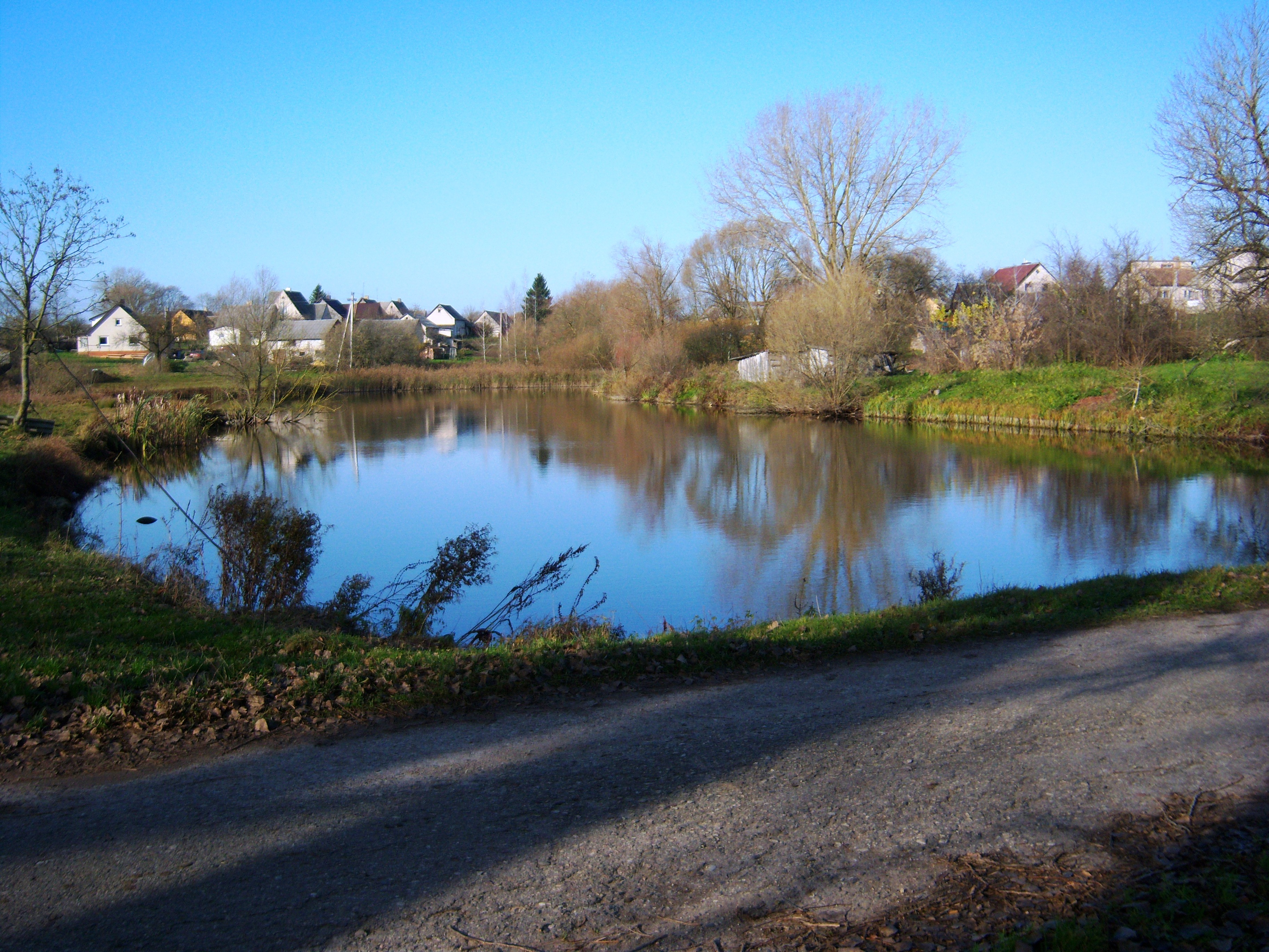 Pond in Leonpolis, Ukmergė District, Lithuania